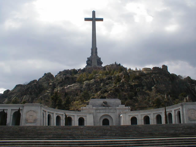 Santa Cruz del Valle de los Caídos, located northwest of Madrid in the municipality of San Lorenzo de El Escorial in central Spain, is a memorial site to honour the people killed in the Spanish Civil War. It is also the tomb of Generalísimo Francisco Franco and José Antonio Primo de Rivera, the founder of Falange Española.